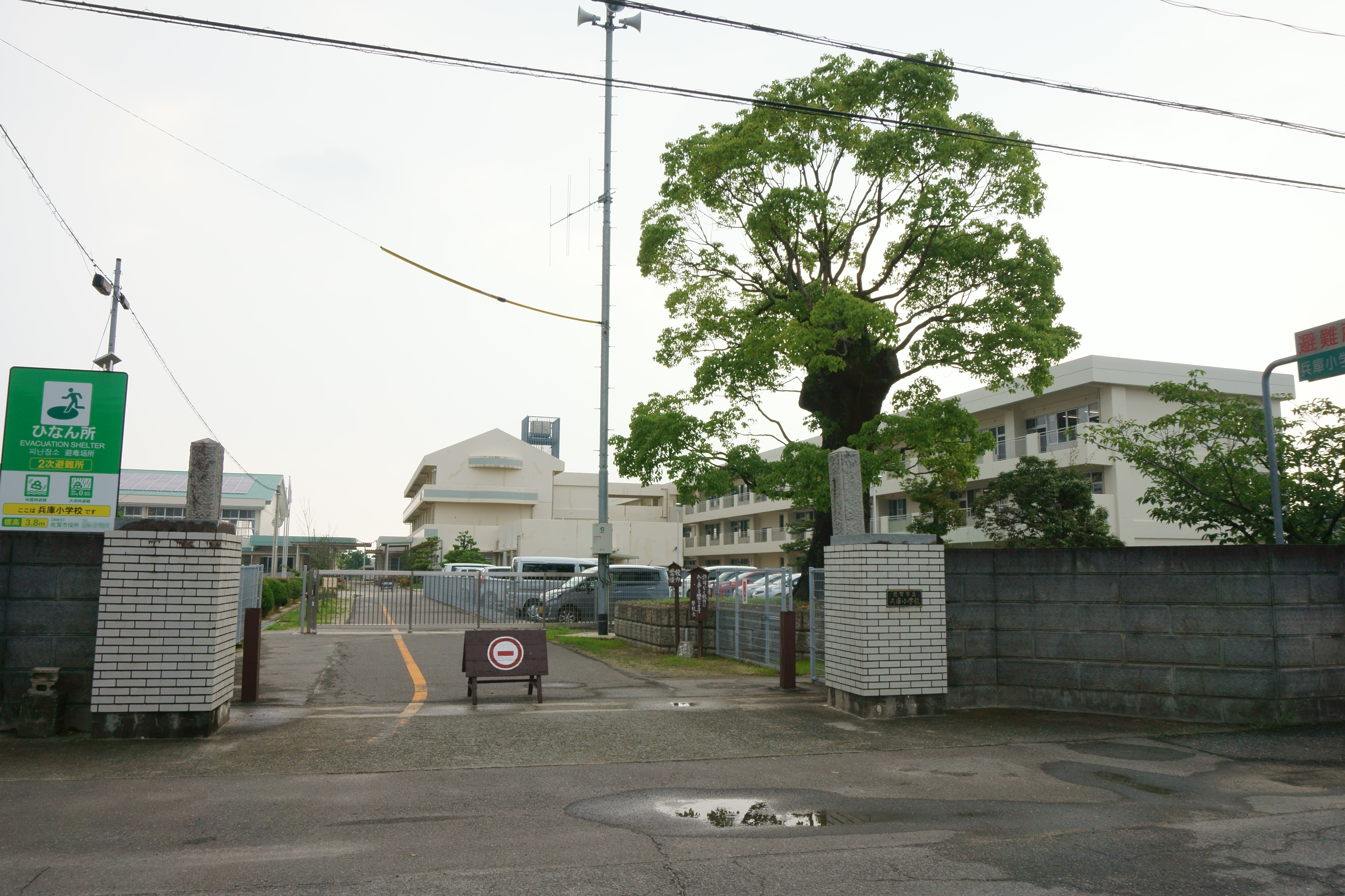 A main gate of Saga municipal Hyogo elementary school, in Fuchi, Hyogo-machi, Saga city, Saga prefecture.